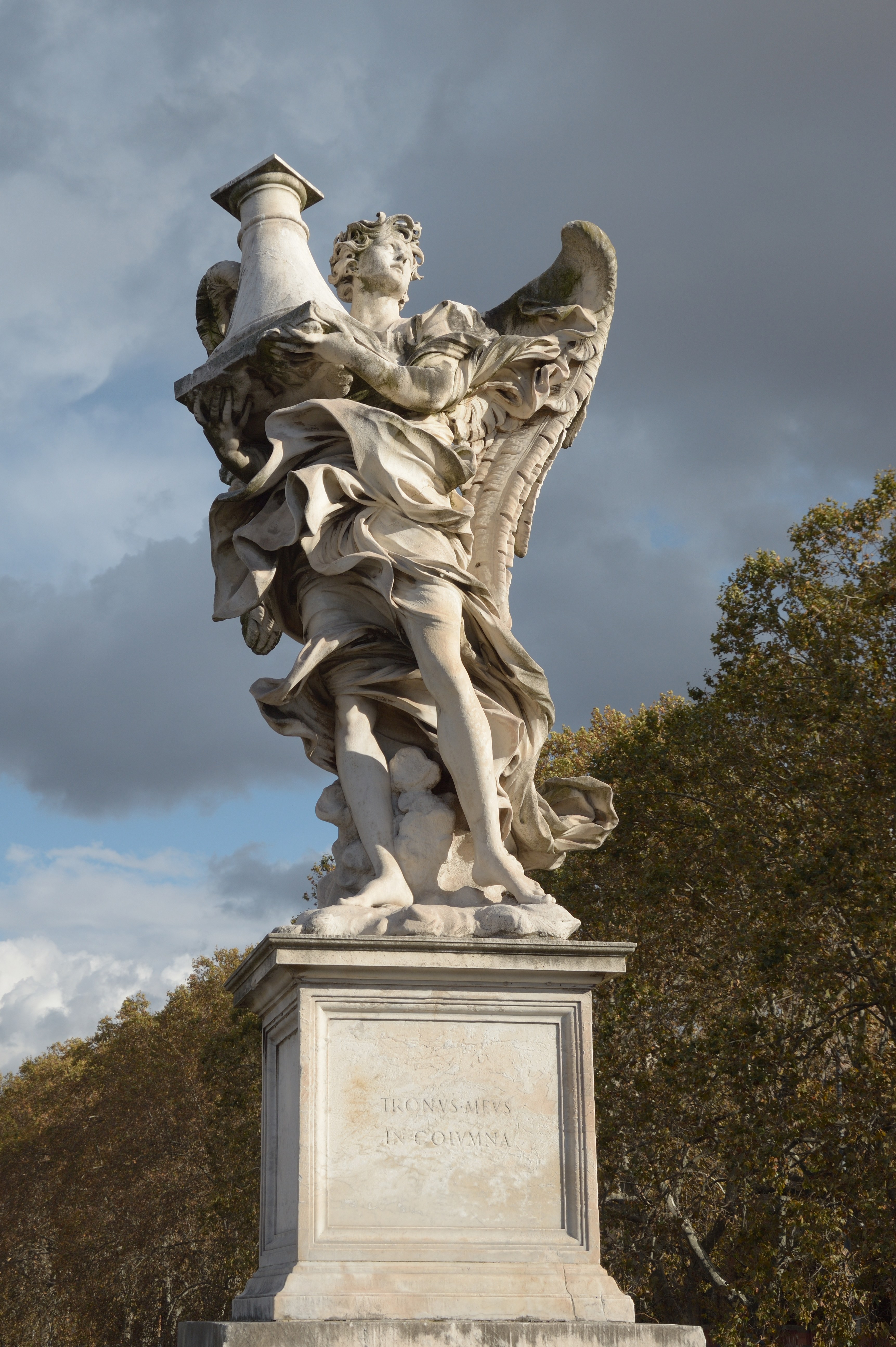 Angel bearing a column by Antonio Raggi, with the inscription “tronus meus in columna” ("my throne is in a cloudy pillar", Sirach 24:4), eastern side of the Ponte Sant'Angelo in Rome.